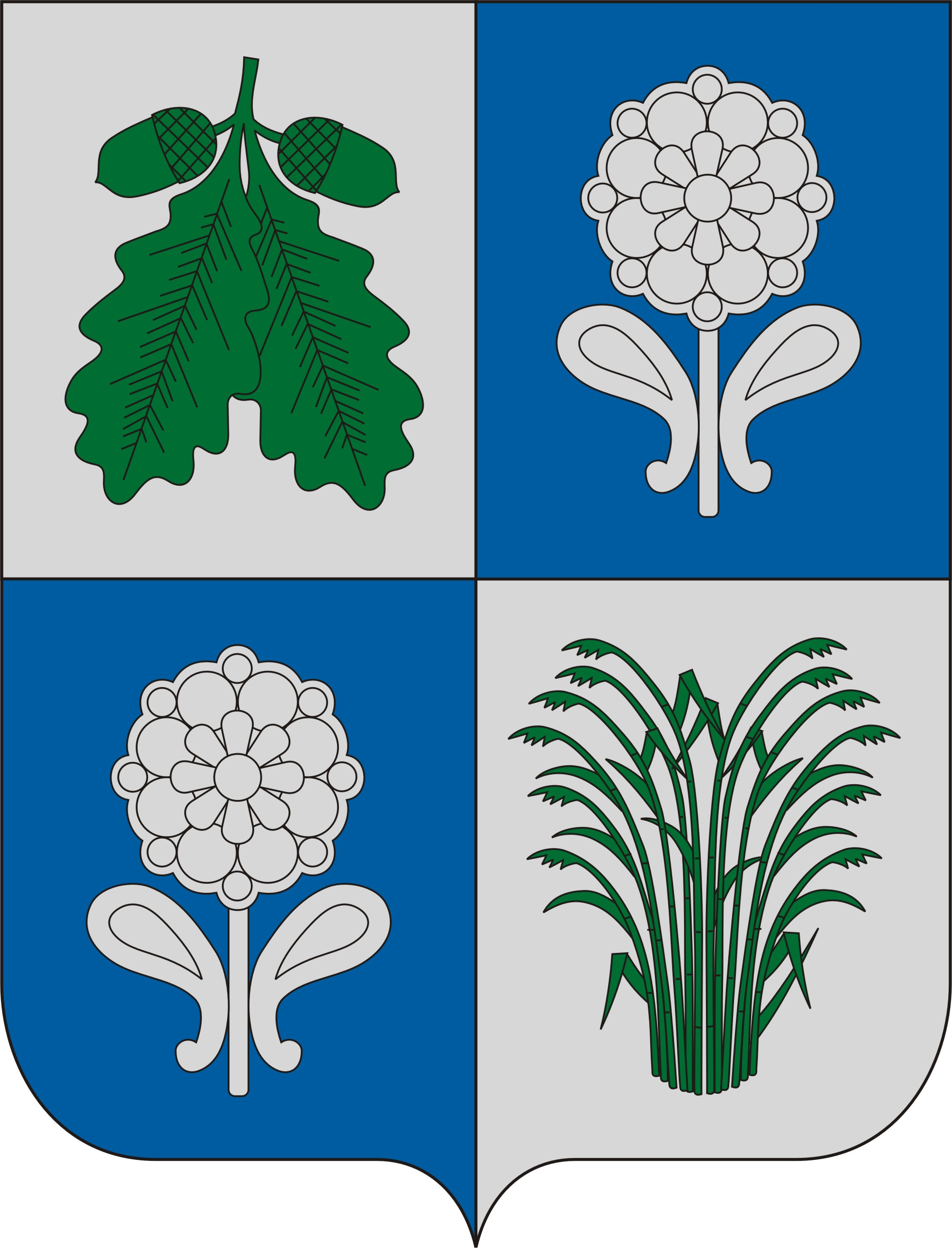 Coat of arms of Érsekcsanád, Hungary